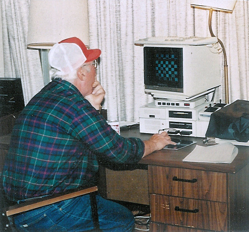 PCjr with most available upgrades available from PC Enterprises, including combo cartridge, dual floppy drives, and bootable from the twin ST-225 SCSI drives using Future Domain firmware { hidden under monitor cover on right}. System is playing game "Battlechess". New larger keyboard is on top of Taxan RGB monitor.